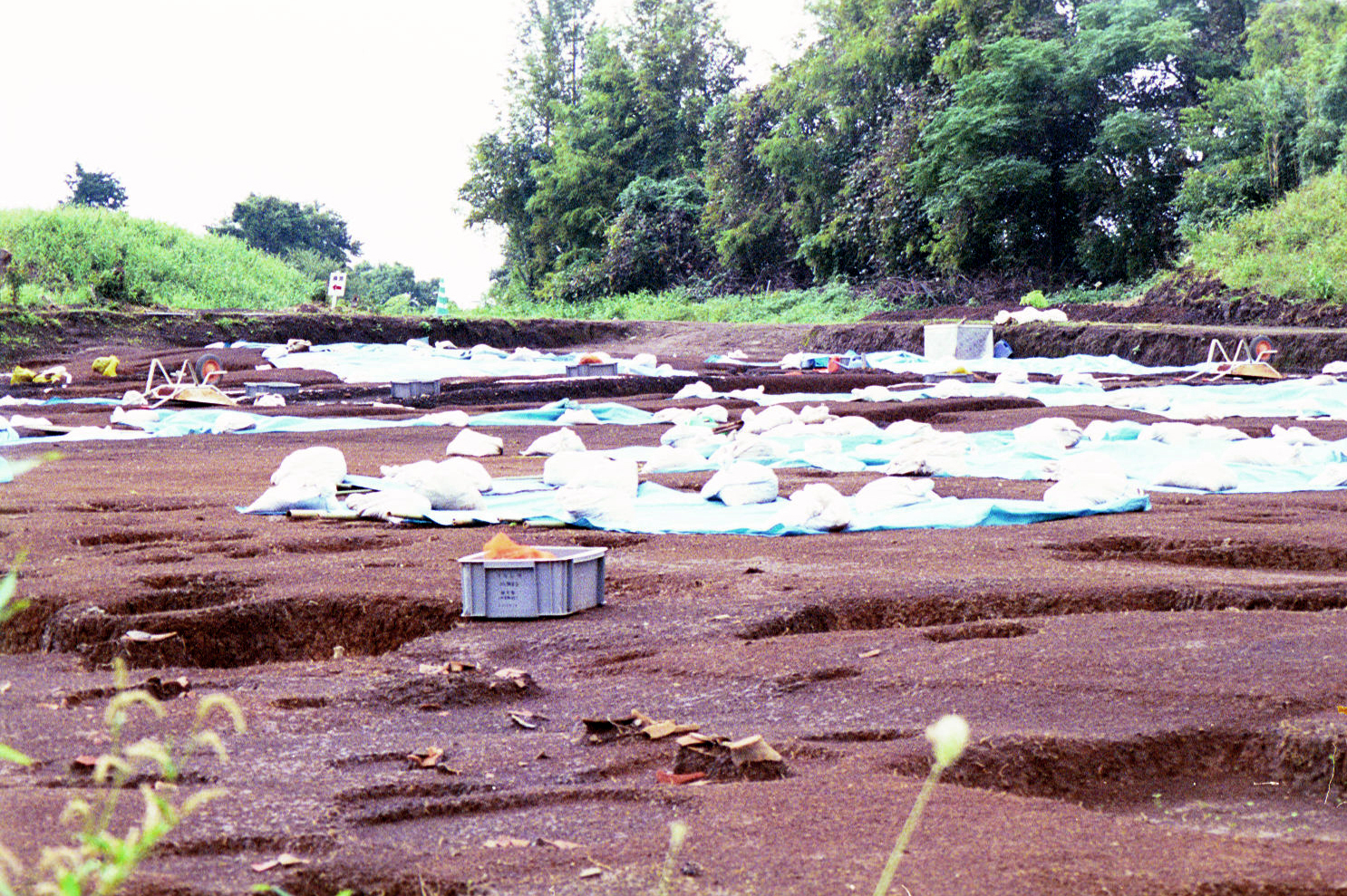 This is an active excavation. Plastic wrap protects the site from weather. As artifacts are cleared, they are wrapped in scrap paper and placed into boxes such as the blue box in the center foreground. Barely visible in front of the box is an excavation technique called "pedestaling," in which artifacts (in this case, some pot sherds) are left in place on the substrate, which is then cut away from around the objects, leaving them on a "pedestal" as seen here. This practice clarifies and preserves the three-dimensional relationships between objects as they are uncovered.